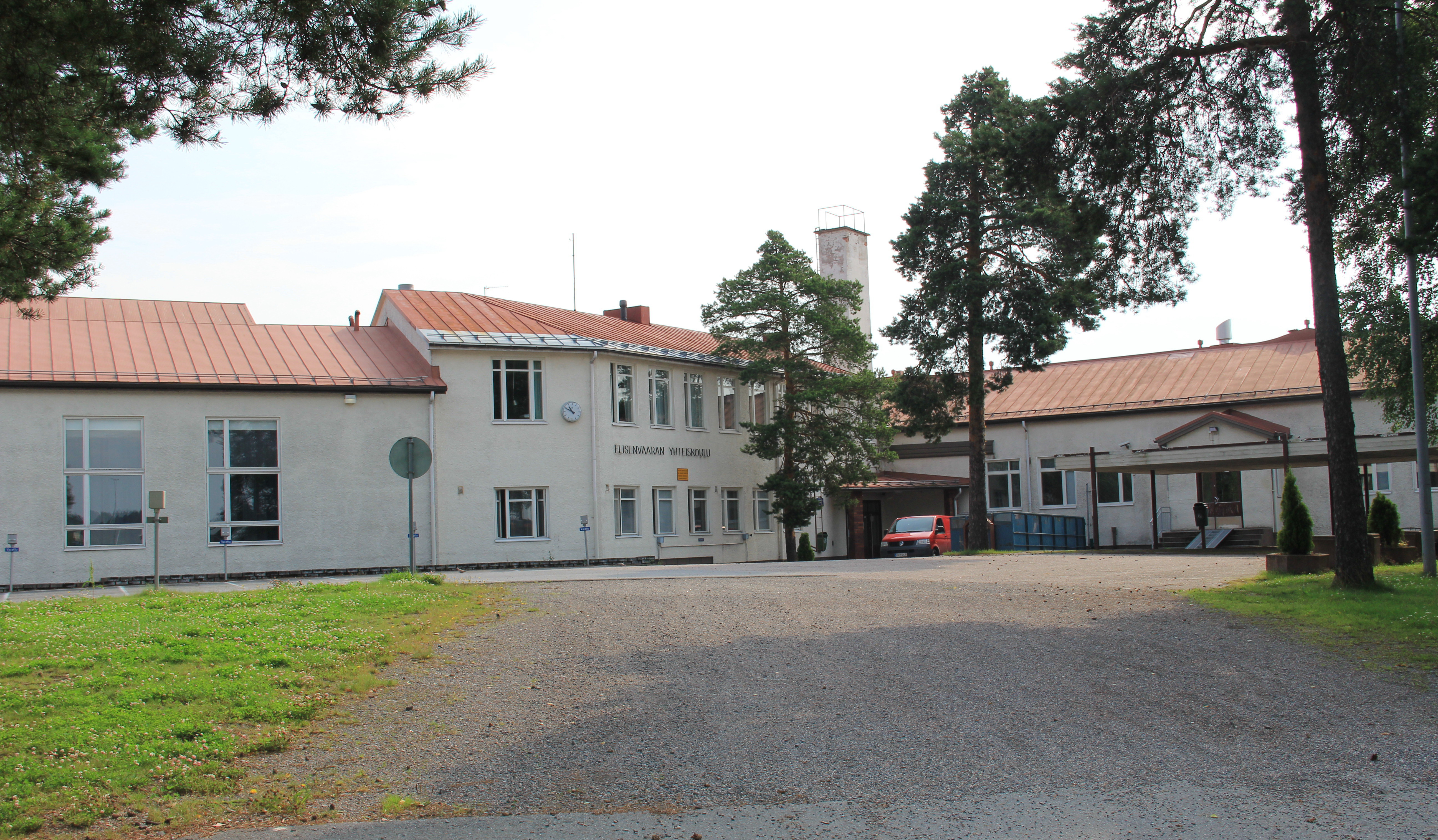 Elisenvaara School in Kyrö, former Karinainen, Pöytyä , Finland.